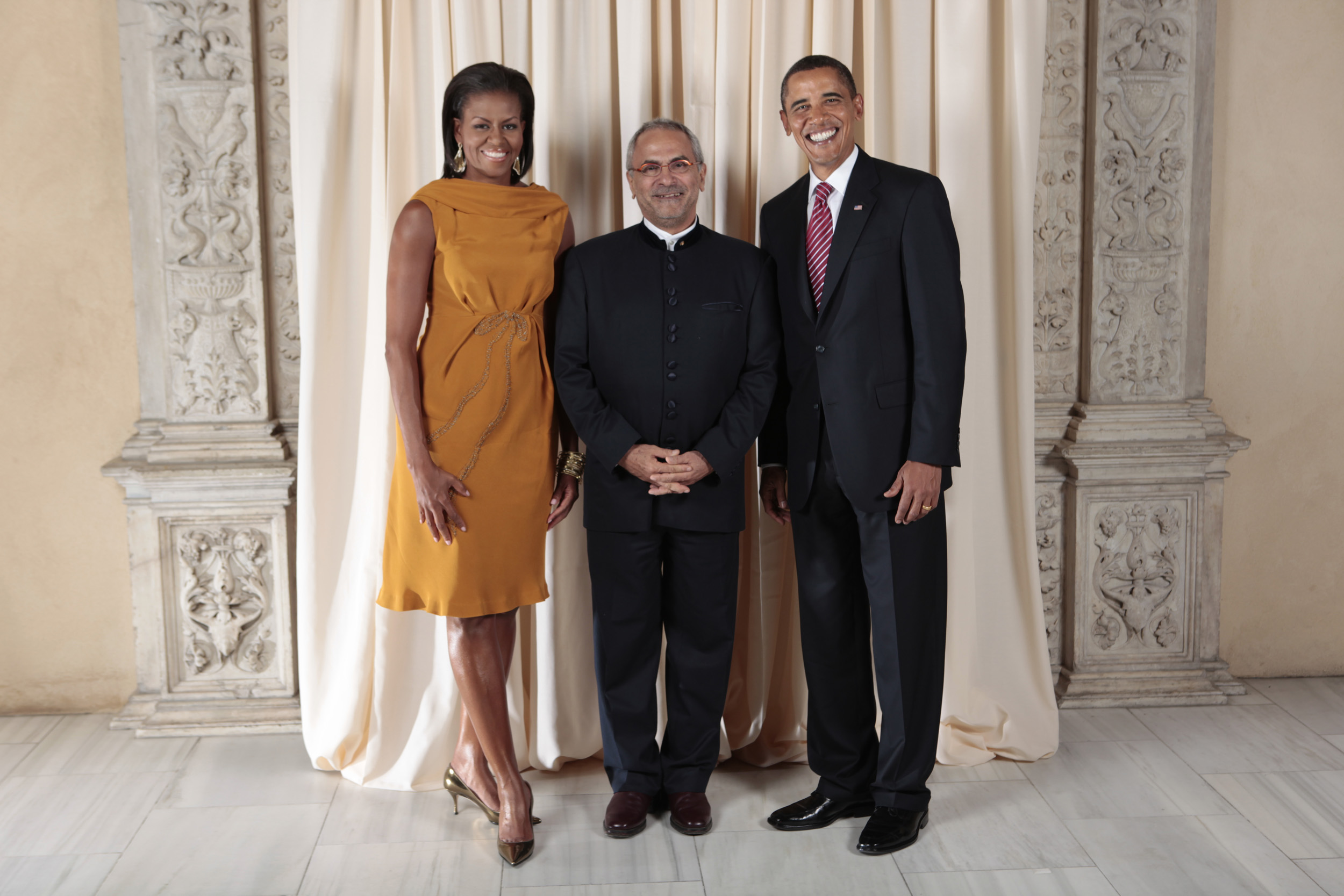 President Barack Obama and First Lady Michelle Obama pose for a photo during a reception at the Metropolitan Museum in New York with Jose Ramos-Horta.